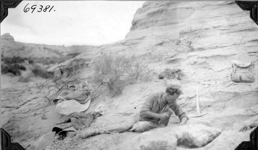 Dr. Rudolf Stahlecker at Pronothrotherium prospect. 1926. Name of Expedition: 2nd Captain Marshall Field Paleontological Expedition Participants: Elmer S. Riggs (Leader and Photographer), Robert C. Thorne (Collector), Rudolf Stahlecker (Collector), Felipe Mendez Expedition Start Date: April 1926 Expedition End Date: November 1926 Purpose or Aims: Geology Fossil Collecting Location: South America, Argentina, Catamarca Original material: 5x7 inch Interpositive Digital Identifier: CSGEO69381 Learn more about The Field Museum's at Library Photo Archives